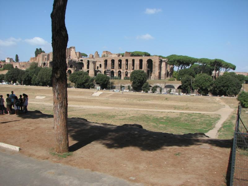 Domus Flavia and Circo Massimo